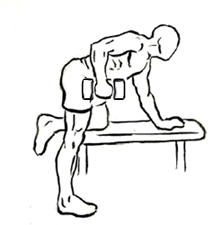 an exercise of triceps